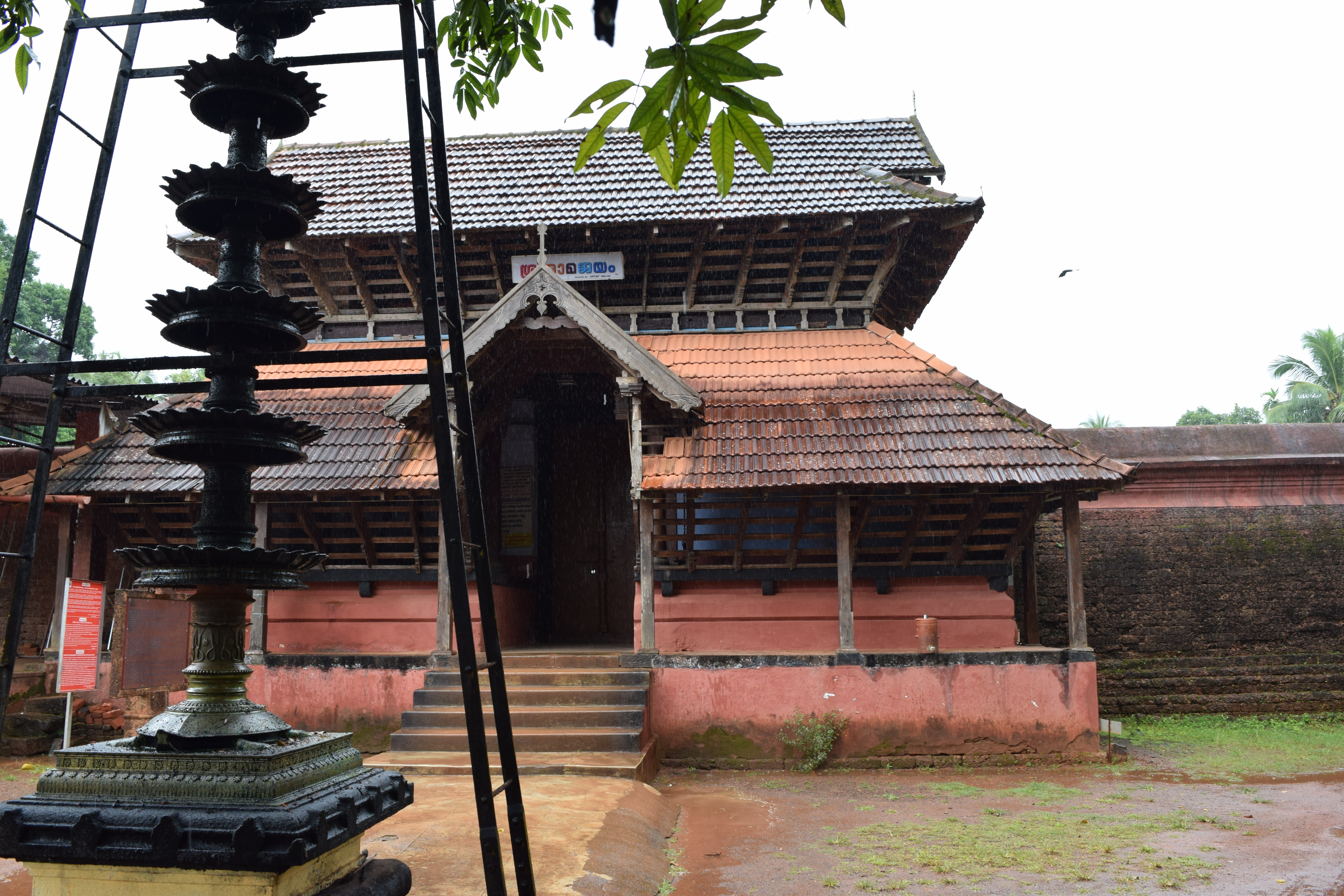 Kadavallur Sri Rama Temple located at Kadavallur of Thrissur District of Kerala